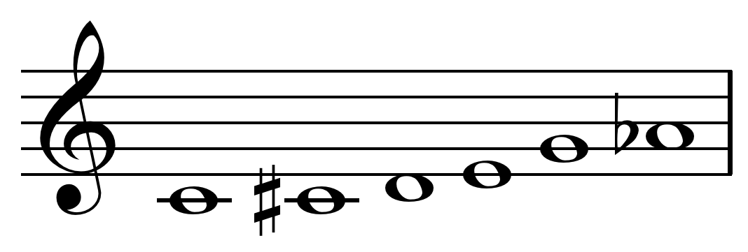 All-trichord hexachord